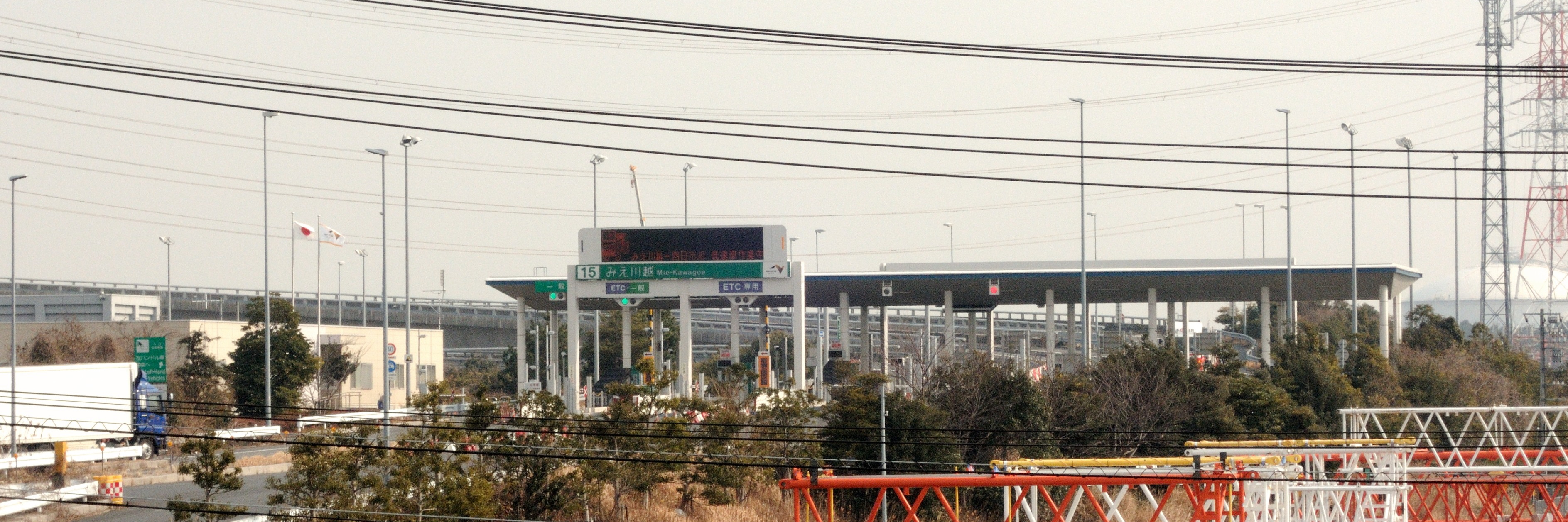 Mie-Kawagoe Inter Change ,Mie prefecture,Japan